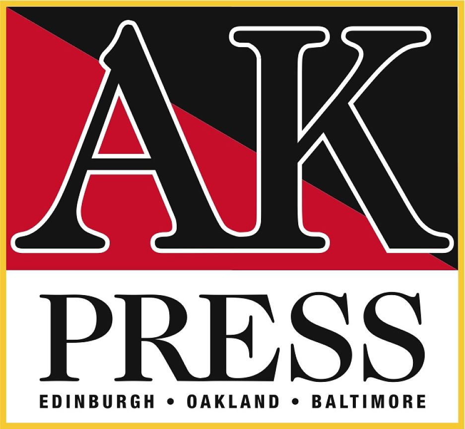 Logo of publishing house AK Press